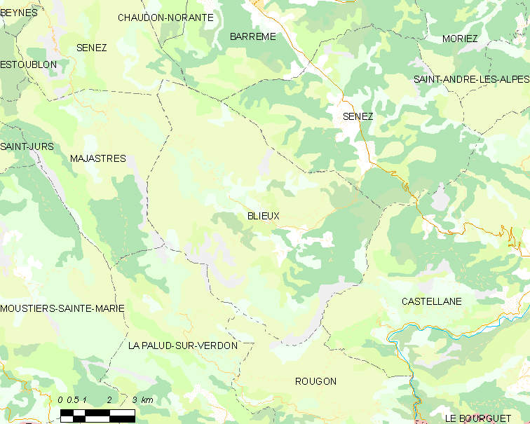 Map commune FR insee code 04030.png Légende